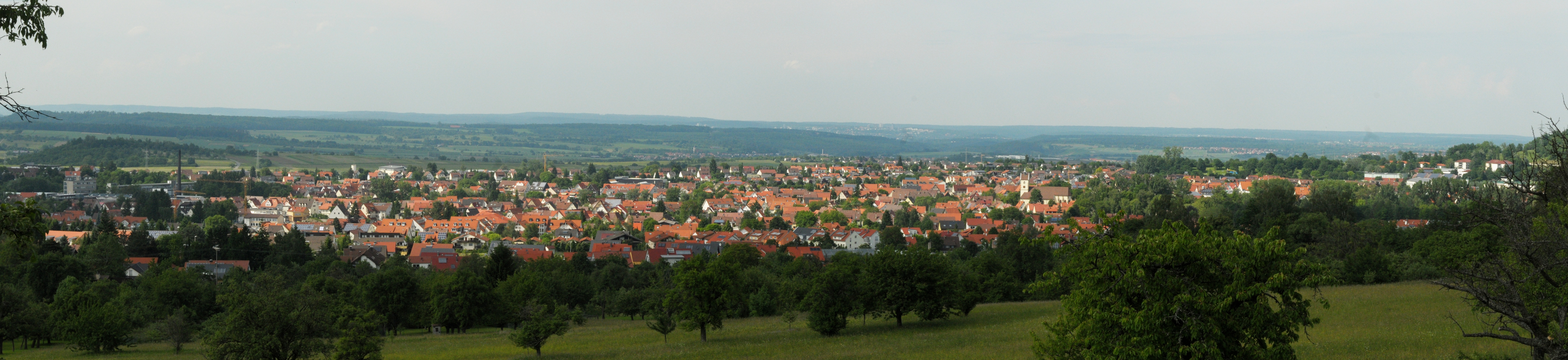 Panorama of Mössingen from the Farrenberg.